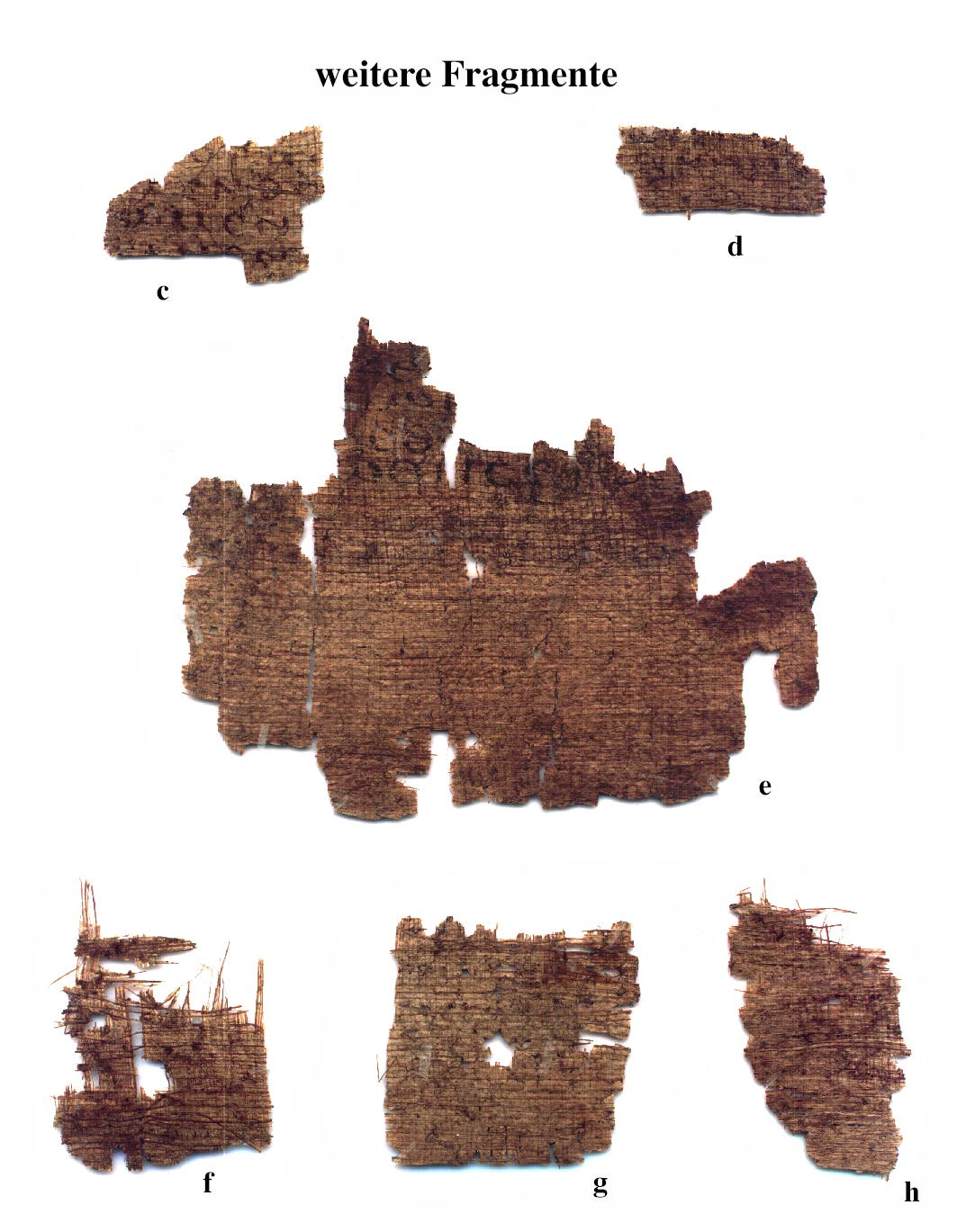 Fragments of the Epistle to the Romans